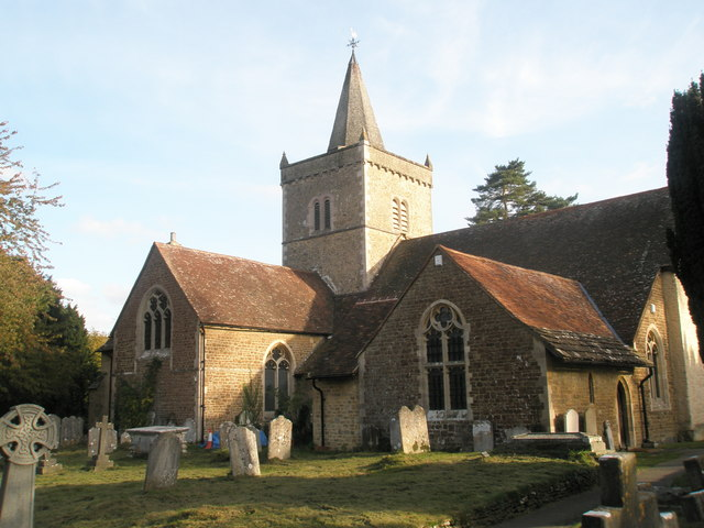 All Saint's Witley Autumn 2009 (3)